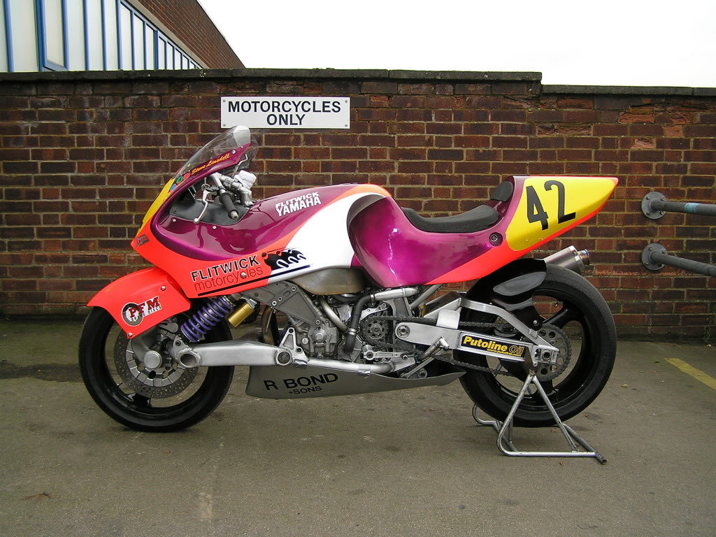 Steven Linsdell Flitwick Motorcycles Yamaha GTS Isle of Man TT Racing Motorcycle Olie Oliver Linsdell